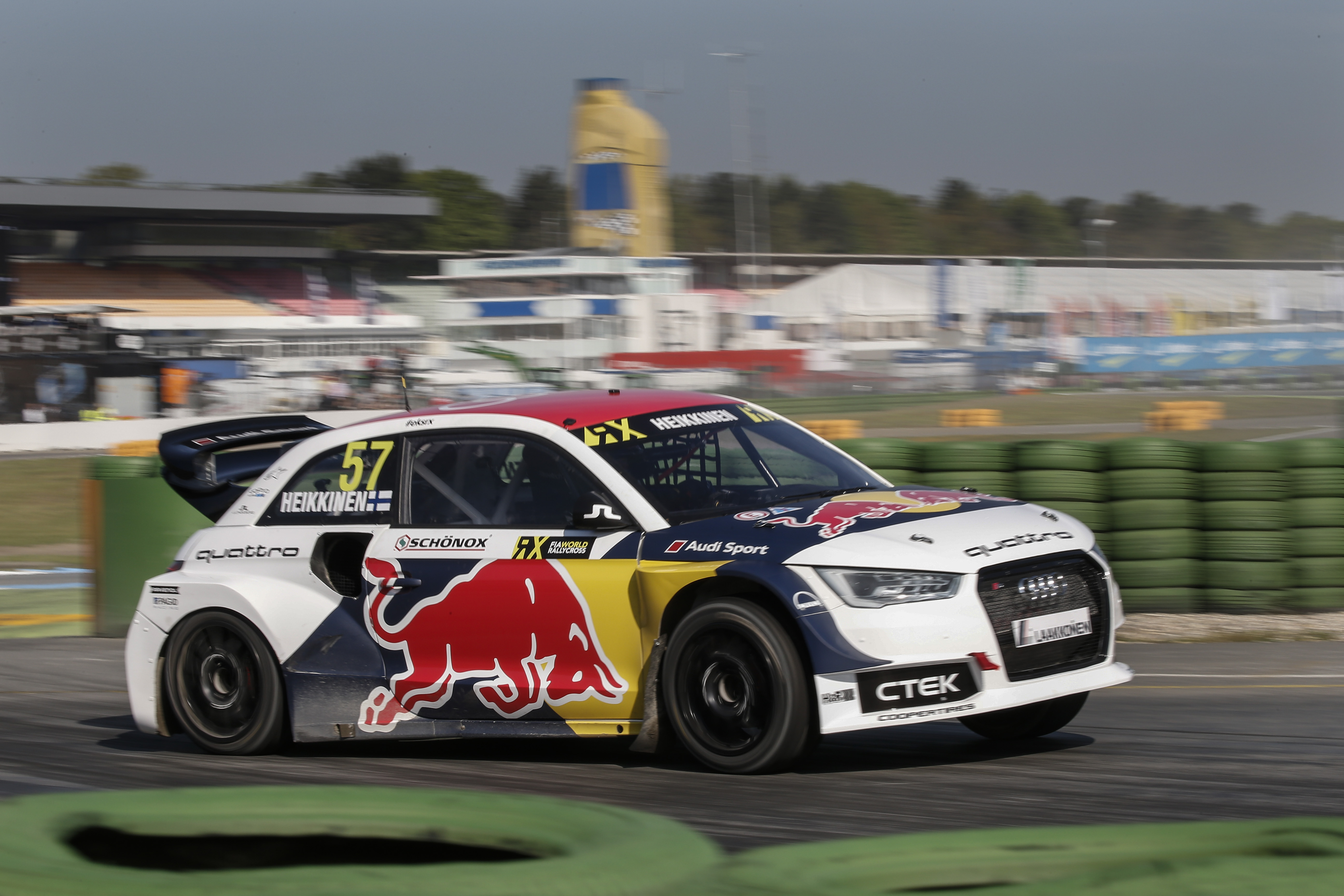 2016 FIA World Rallycross Championship // Round 02 // Hockenheim // 6-8 May, 2016 // Worldwide Copyright: EKS/McKlein